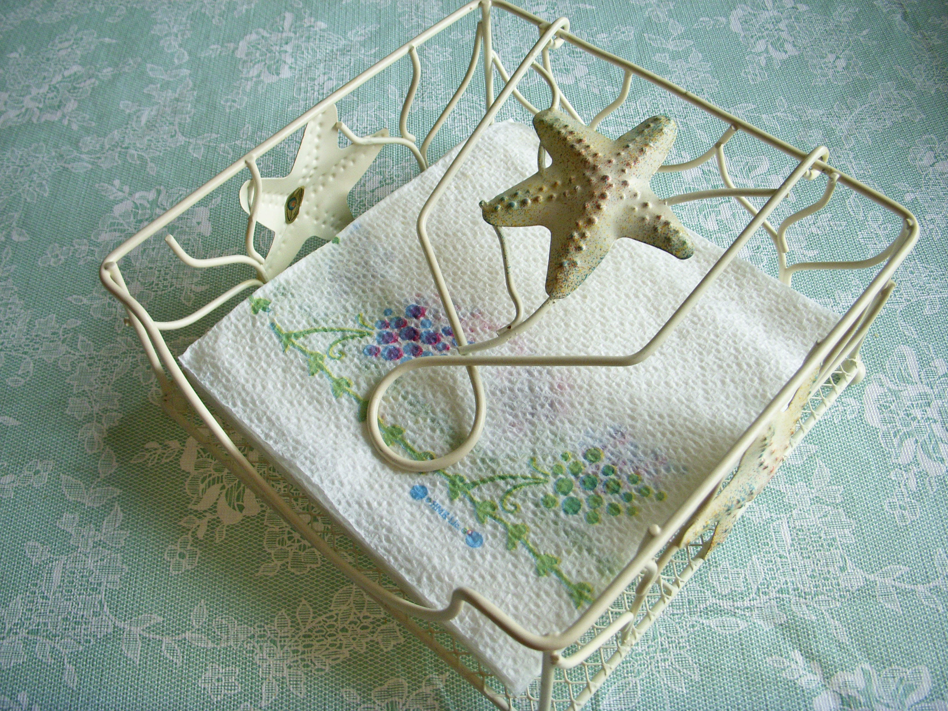 One of those napkin holders that, instead of vertical, are horizontal.